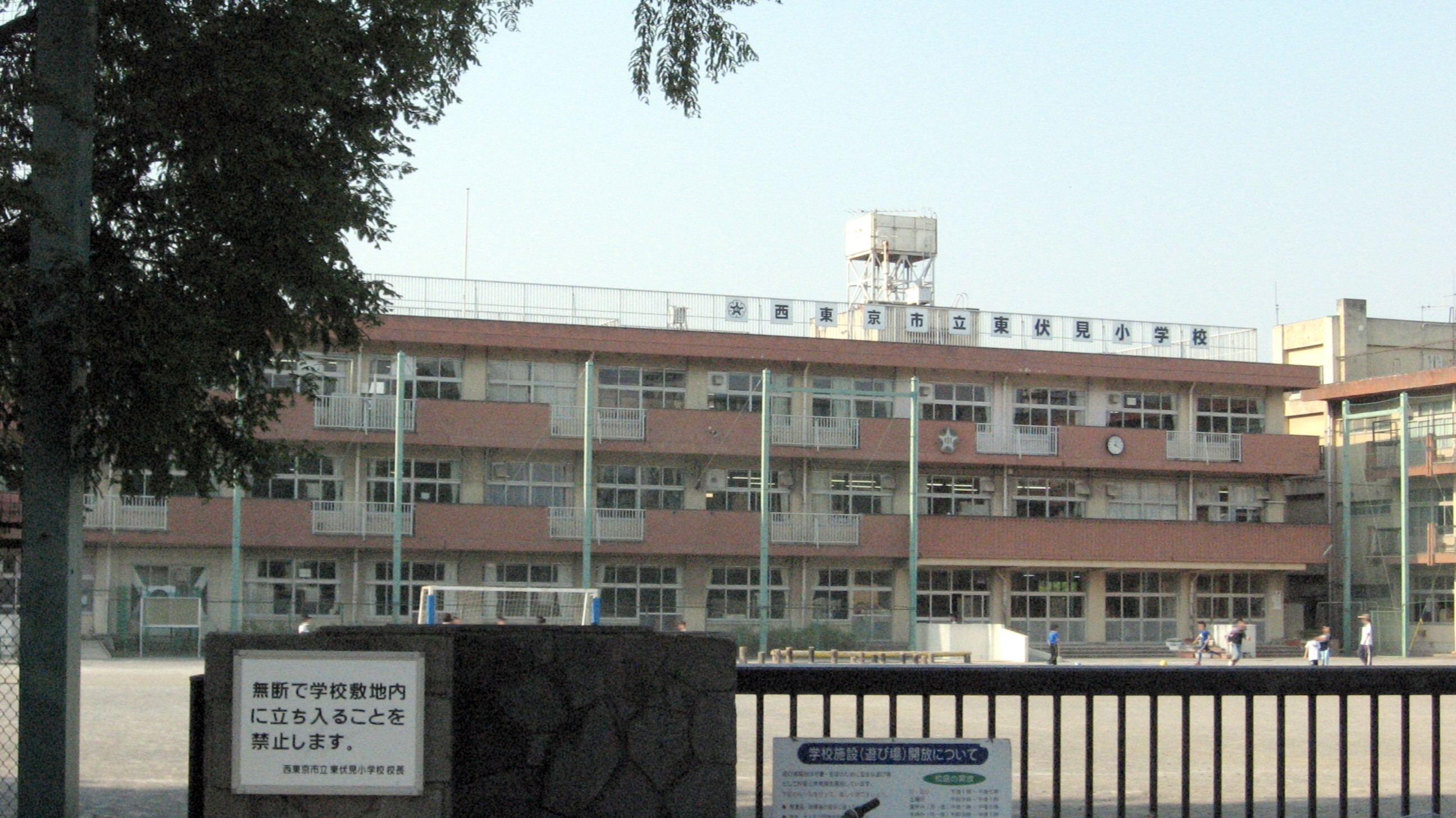 Higashifushimi Higashifushimi elementary school from Nishitokyo, Tokyo.